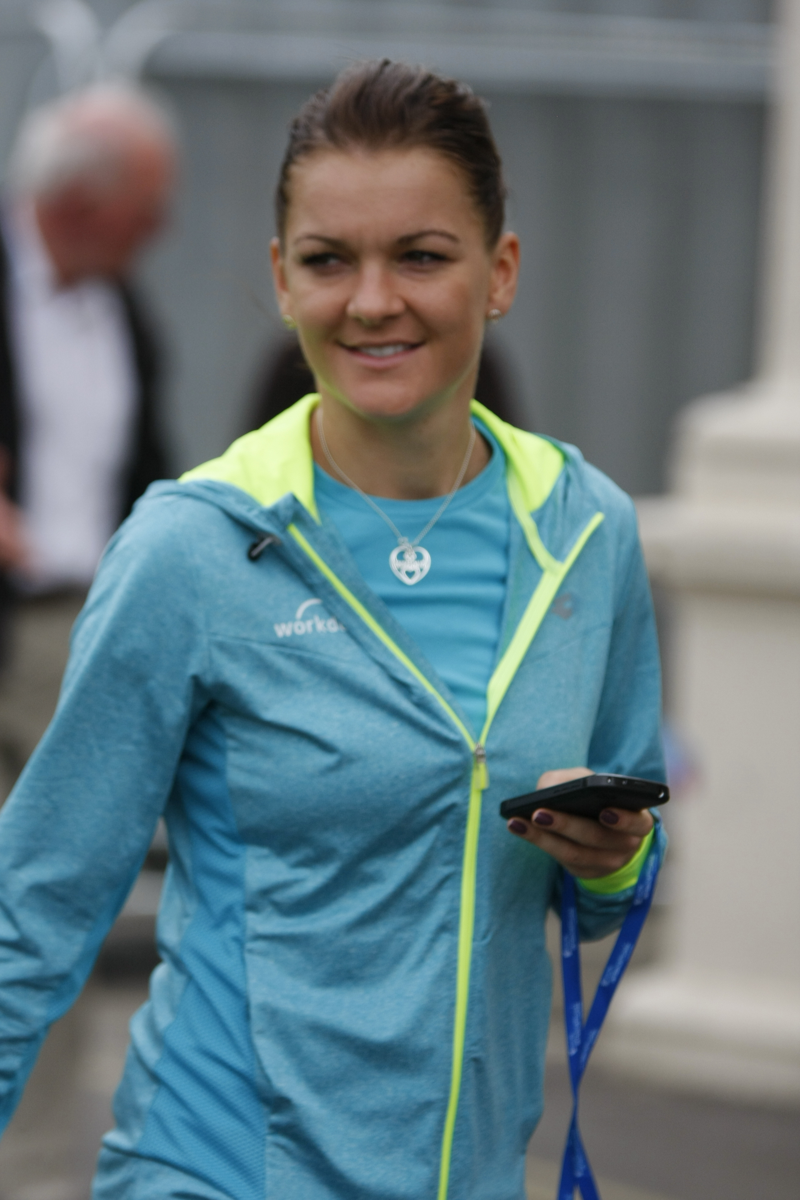 Aegon International Tennis, Devonshire Park, Eastbourne June 2015